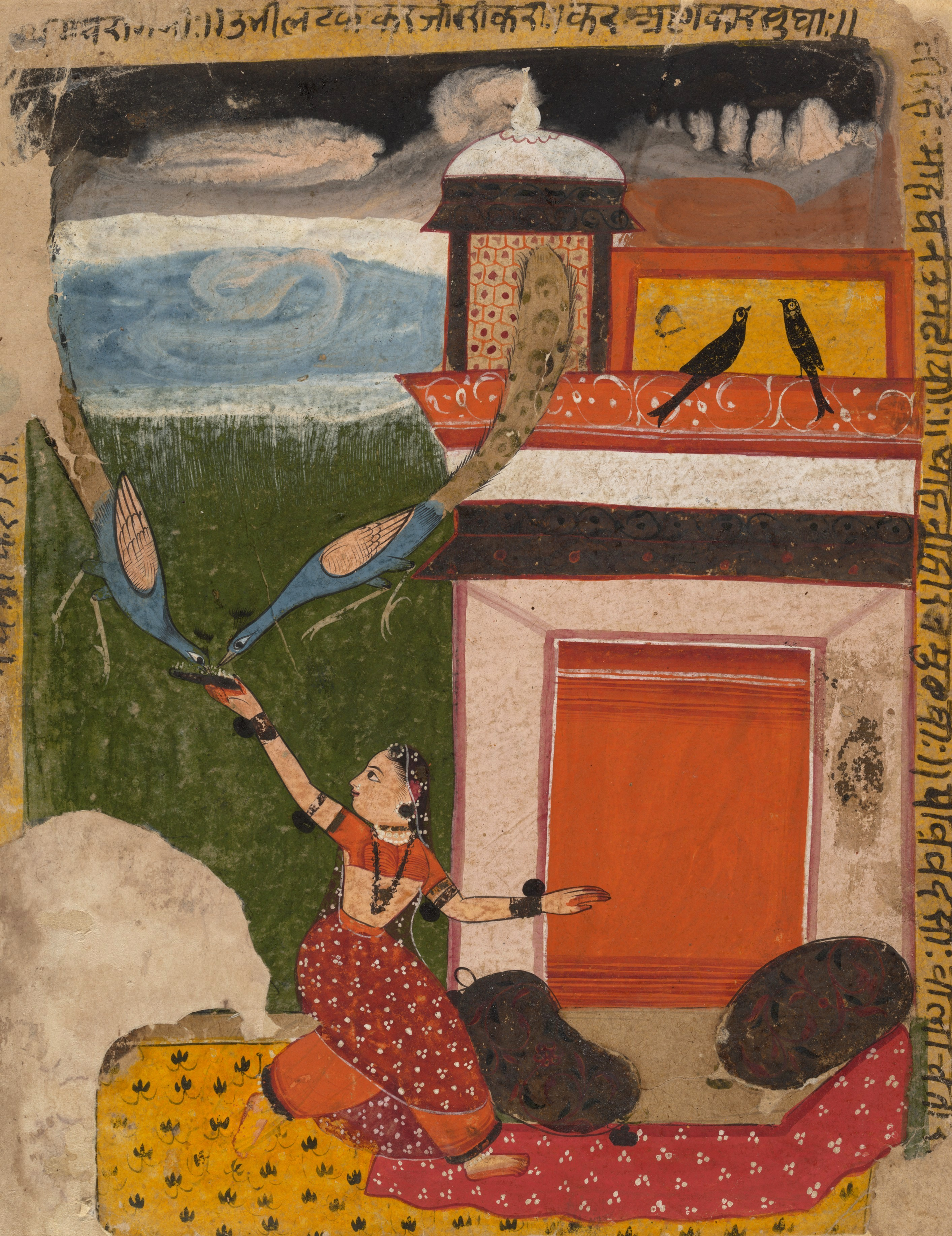 Madhumadhavai Ragini Page from a Dispersed Ragamala Series Marwar 1640-50 Metropolitan museum.